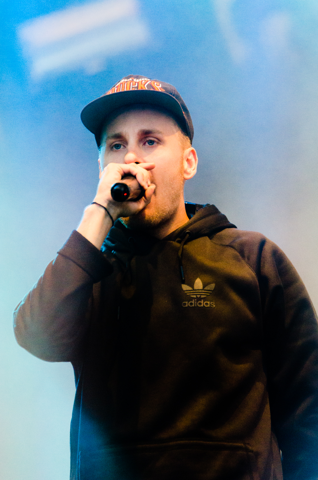 Jare Brand in 2014 in YleX PoP Oulu.